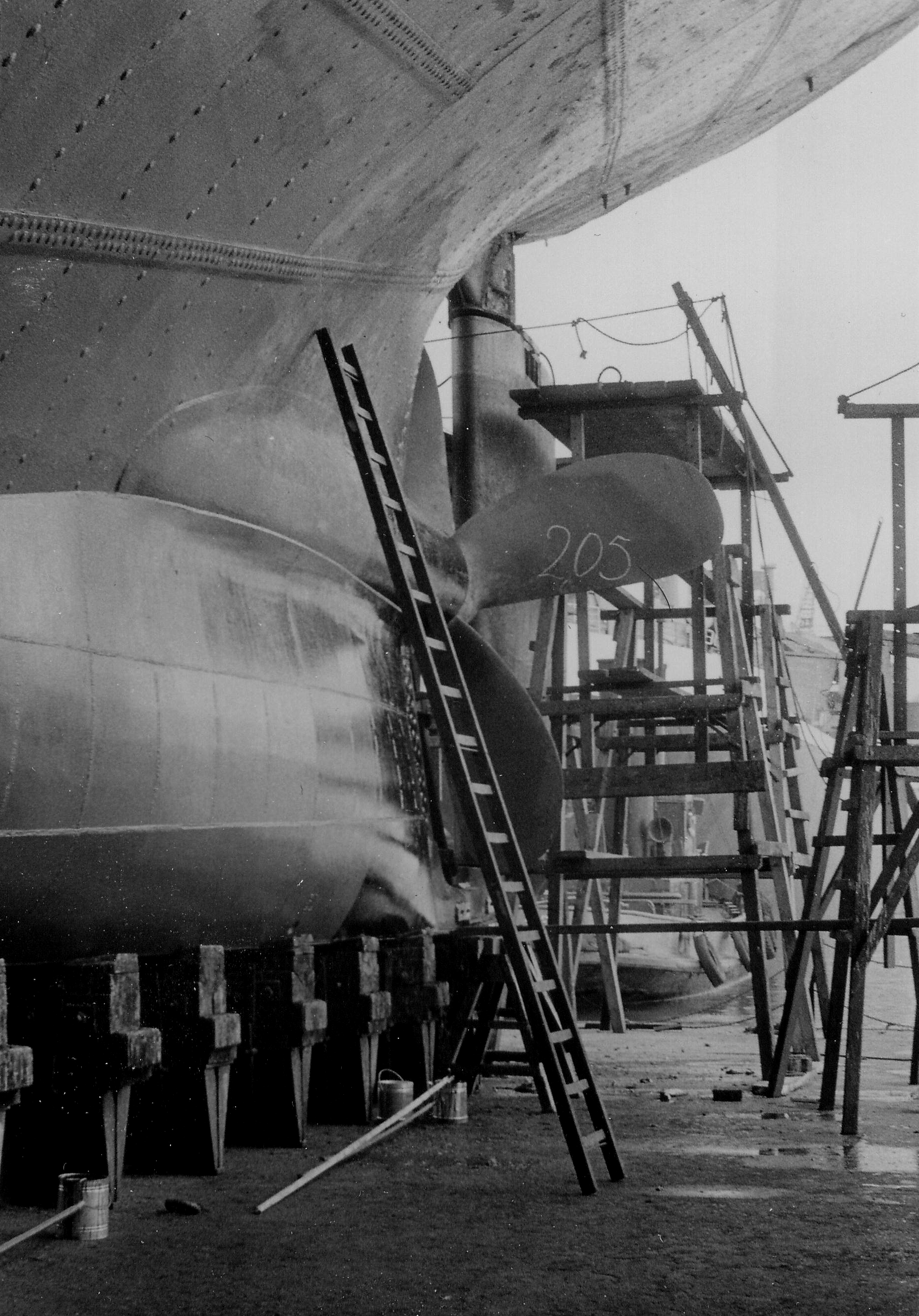 Ship in dock, painting at the rear, Inspection and repair of propeller and rudder